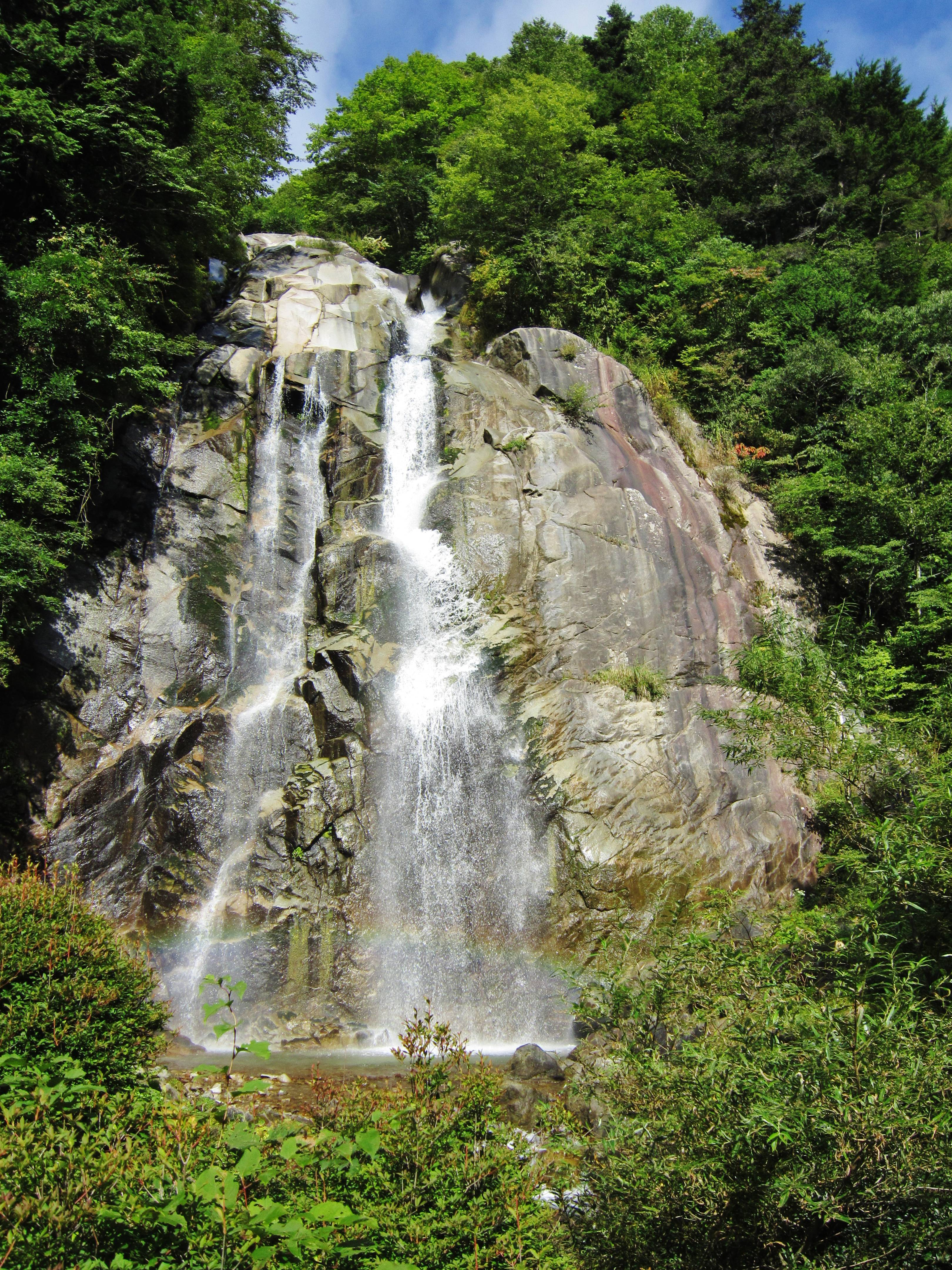 Fudō Falls (Takamori, Nagano).